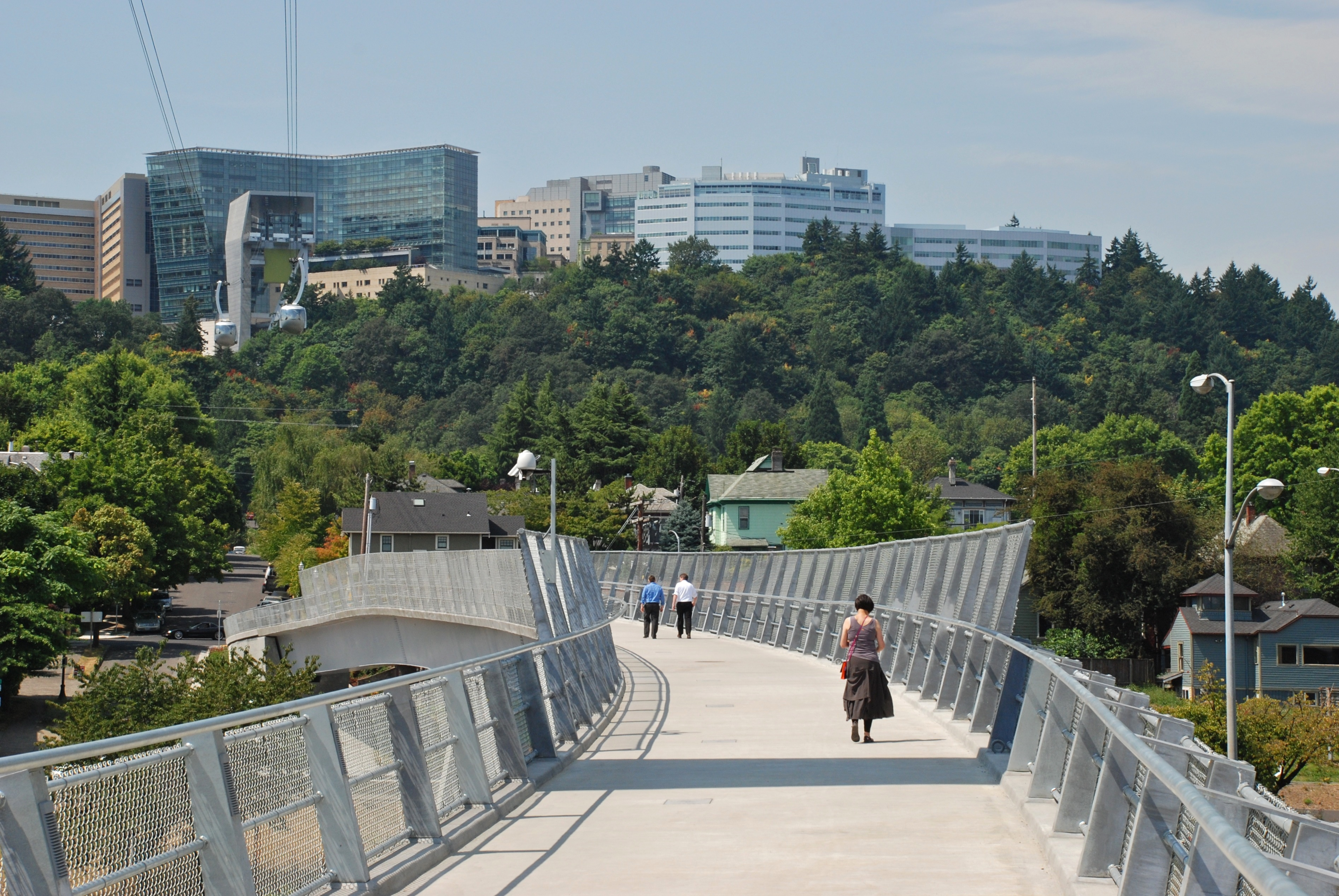 Looking west on the Gibbs Street Pedestrian Bridge (over Interstate 5) in Portland, Oregon, toward Marquam Hill and Oregon Health & Science University. In the background, the two cabins of the Portland Aerial Tram – connecting OHSU with the South Waterfront – are passing.